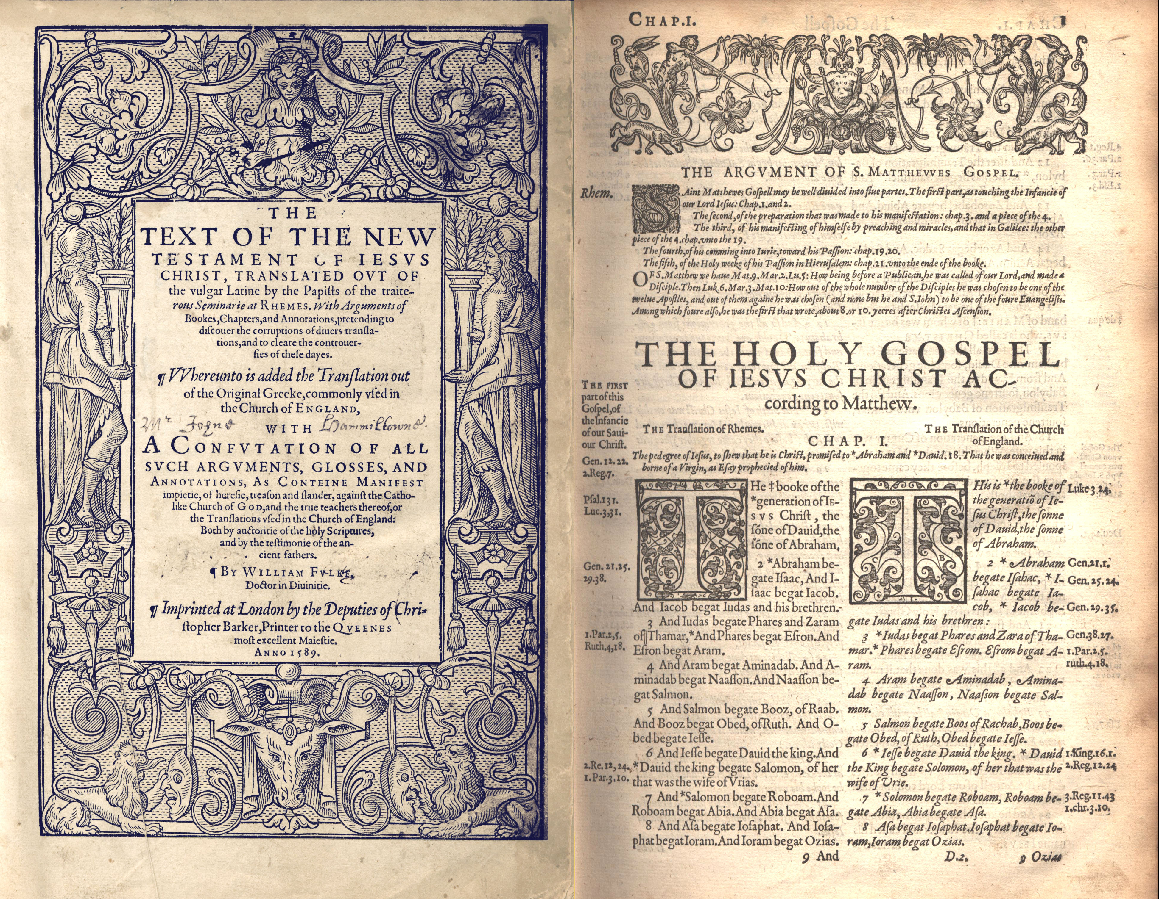 Title Page of the Rheims New Testament with the first page of the Gospel According to Matthew Compared with the Bishop's Bible, 1589, edited by William Fulke, to prove the Bishop's Bible of the New Testament was superior to the Rheims Roman Catholic New Testament translation.